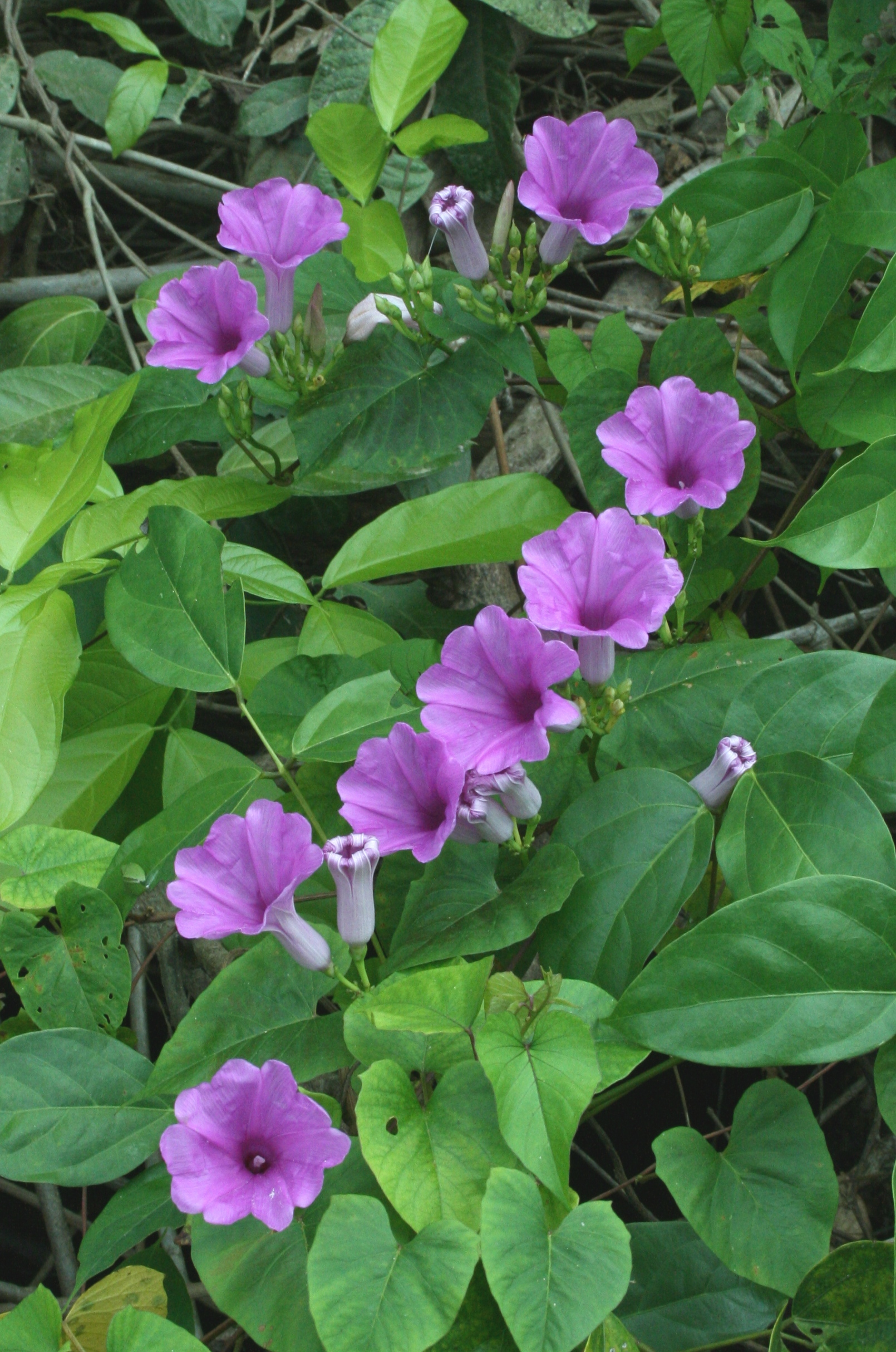 Ipomoea squamosa Rio Tabaro Venezuela